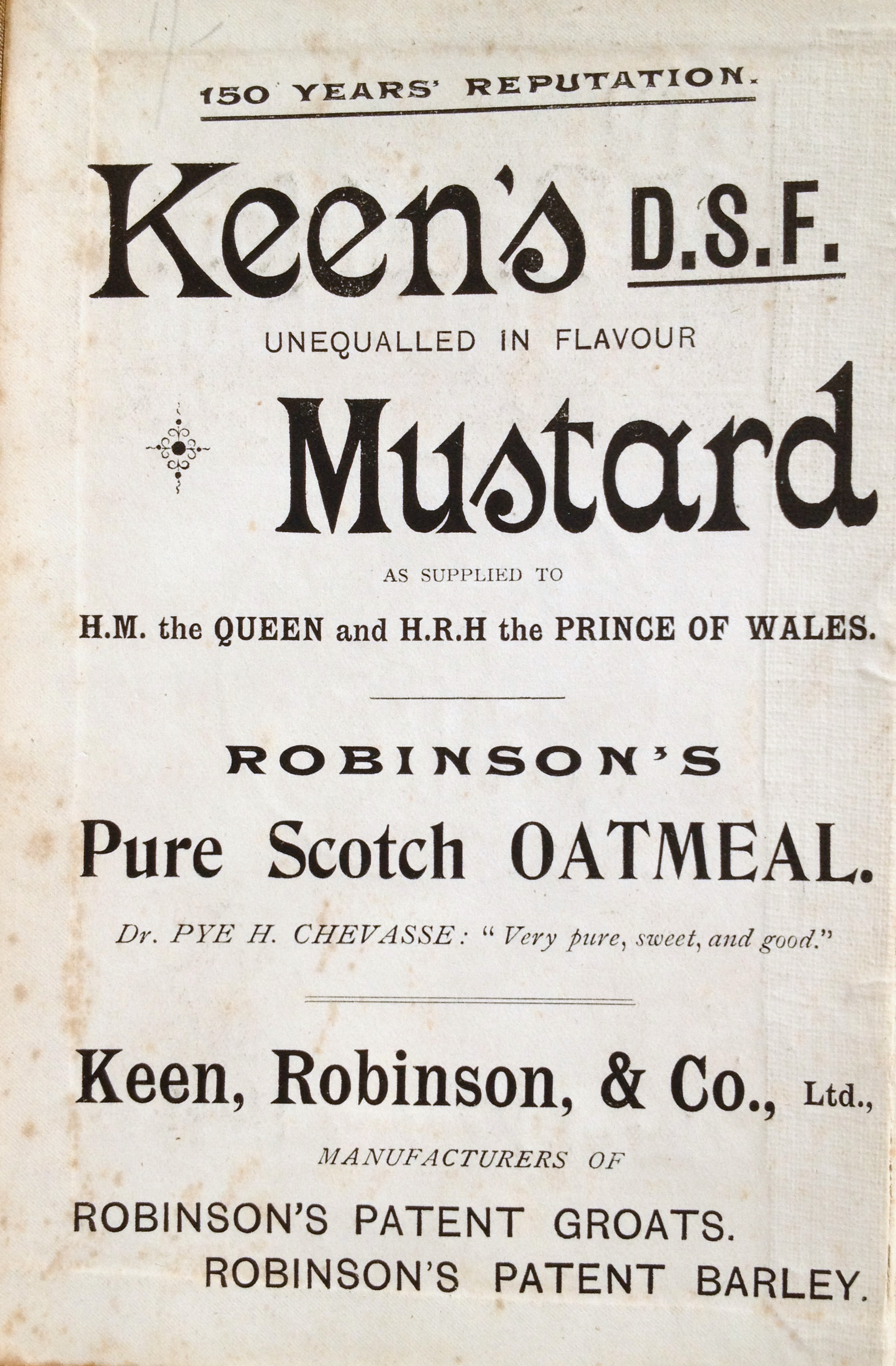 Keen's Mustard advertise in Colonel Kenney Herberts Fifty Breakfasts. London, 1894